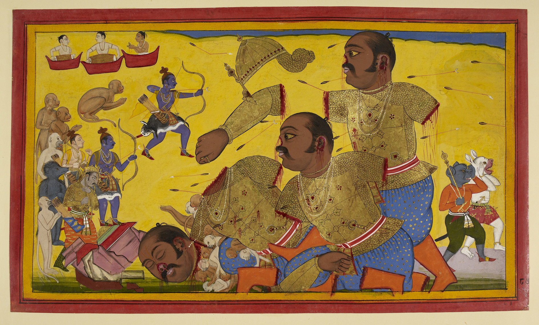 The death of Kumbhakarna Kumbhakarna, his arm, legs and finally his head, severed by Rama's arrows, crashes to the ground. The severed head crushes part of the city of Lanka. The allies rejoice, except Bibishana who seems sad.